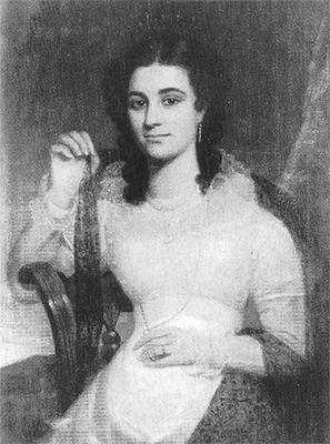 Josefa MacGregor, the wife of Gregor MacGregor, the Scottish soldier, adventurer and confidence trickster behind the Poyais scheme of the 1820s and 1830s.